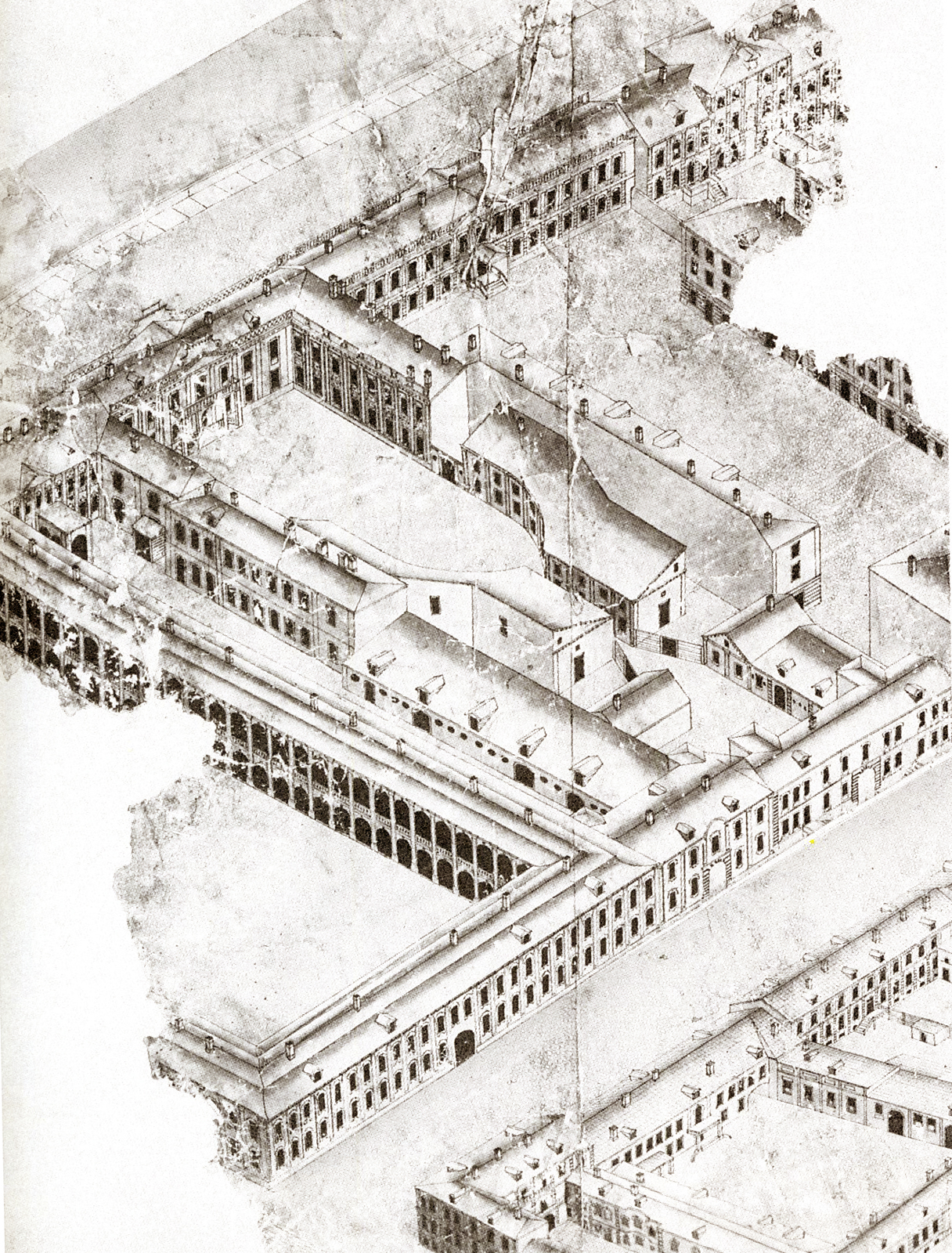 German Quarter in St. Petersburg. Fragment of St. Petersburg axonometric plan by Saint-Hilaire. 1760s. Bottom left - a fragment of the Winter Palace of Catherine I (Domenico Trezzini advanced to the Big German Street Winter Palace of Peter I) - "Life-Campanian Corps"